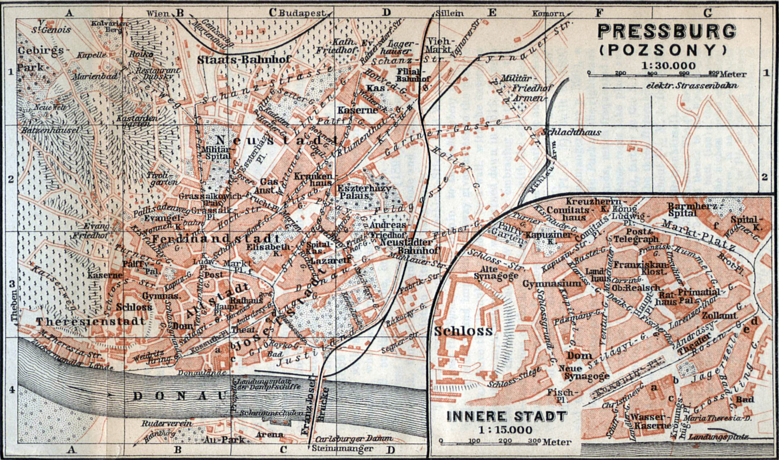 Map of Bratislava/Pressburg around 1905